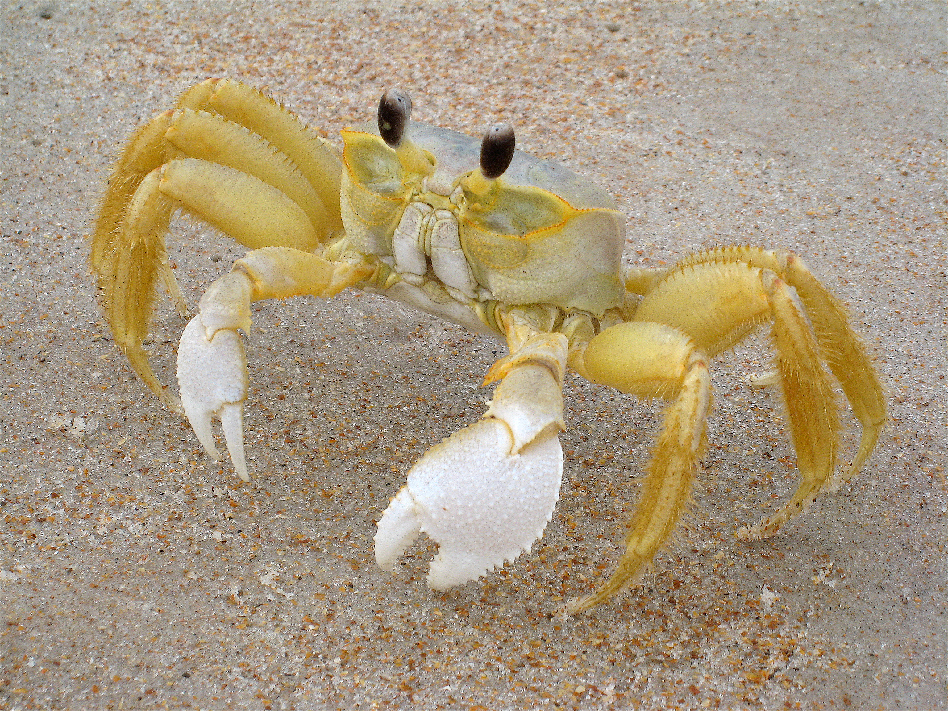 This is an adult Atlantic Ghost Crab, at Ormond Beach, Florida.